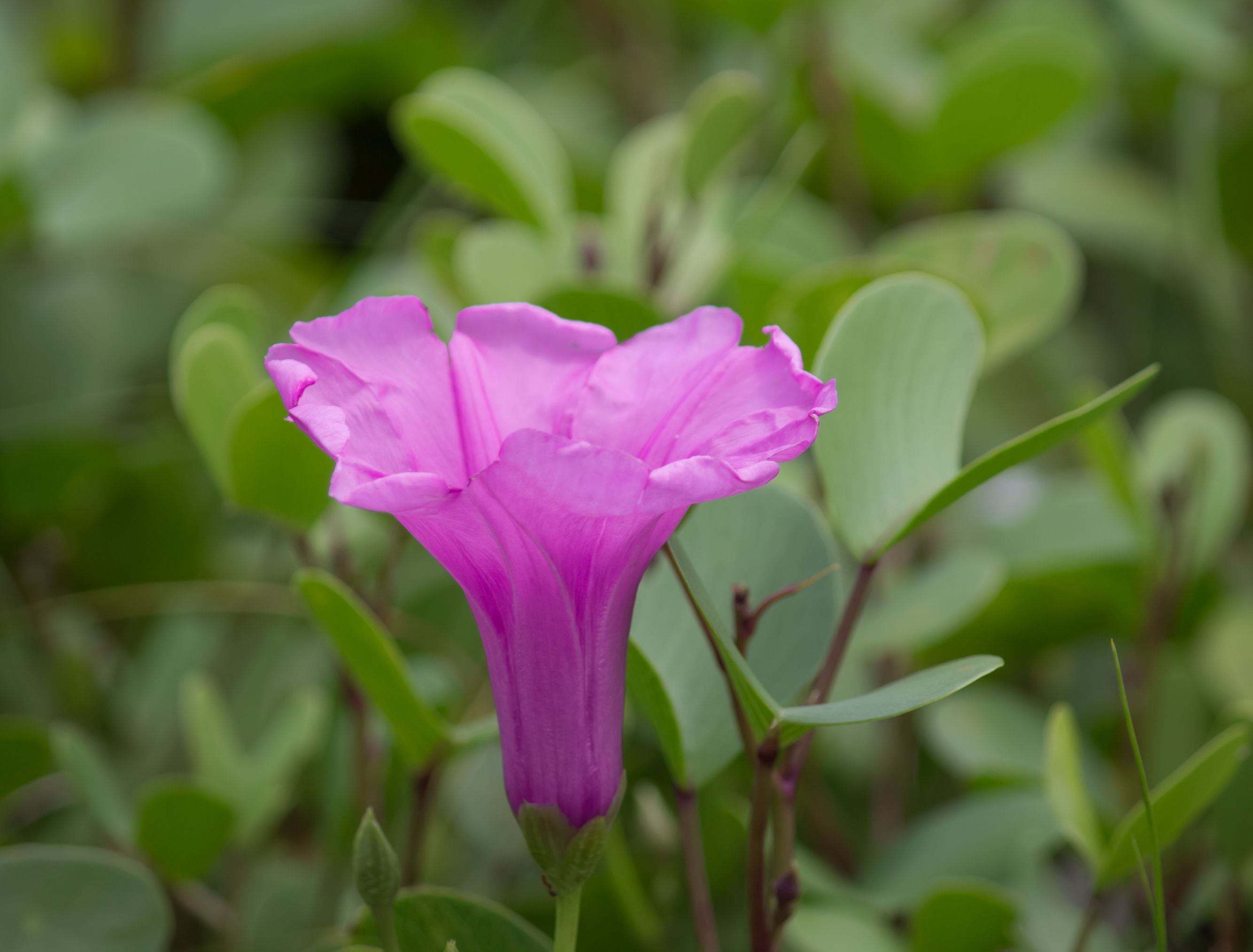 The flower and leaves of Ipomoea pes-caprae growing on the seaward slope of the protective sea wall. Alappuzha, Kerala, India.